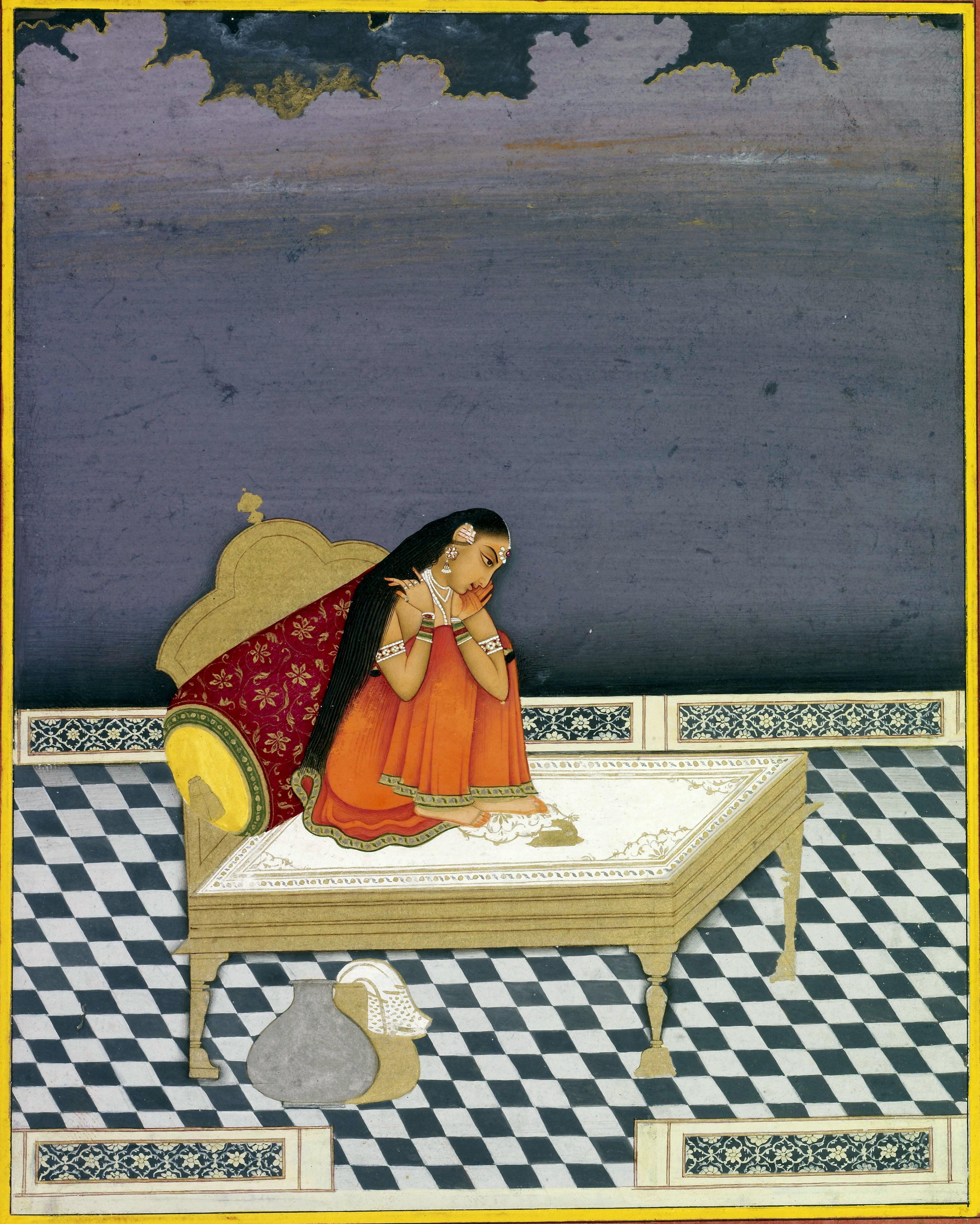 Vipralabdha_Nayika._Jaipur,_ca._1800,_British_Museum,_London.